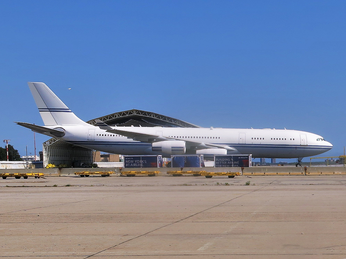 A Saudi Royal Flight Airbus A340-200, the first one ever built, is parked at JFK Airport.